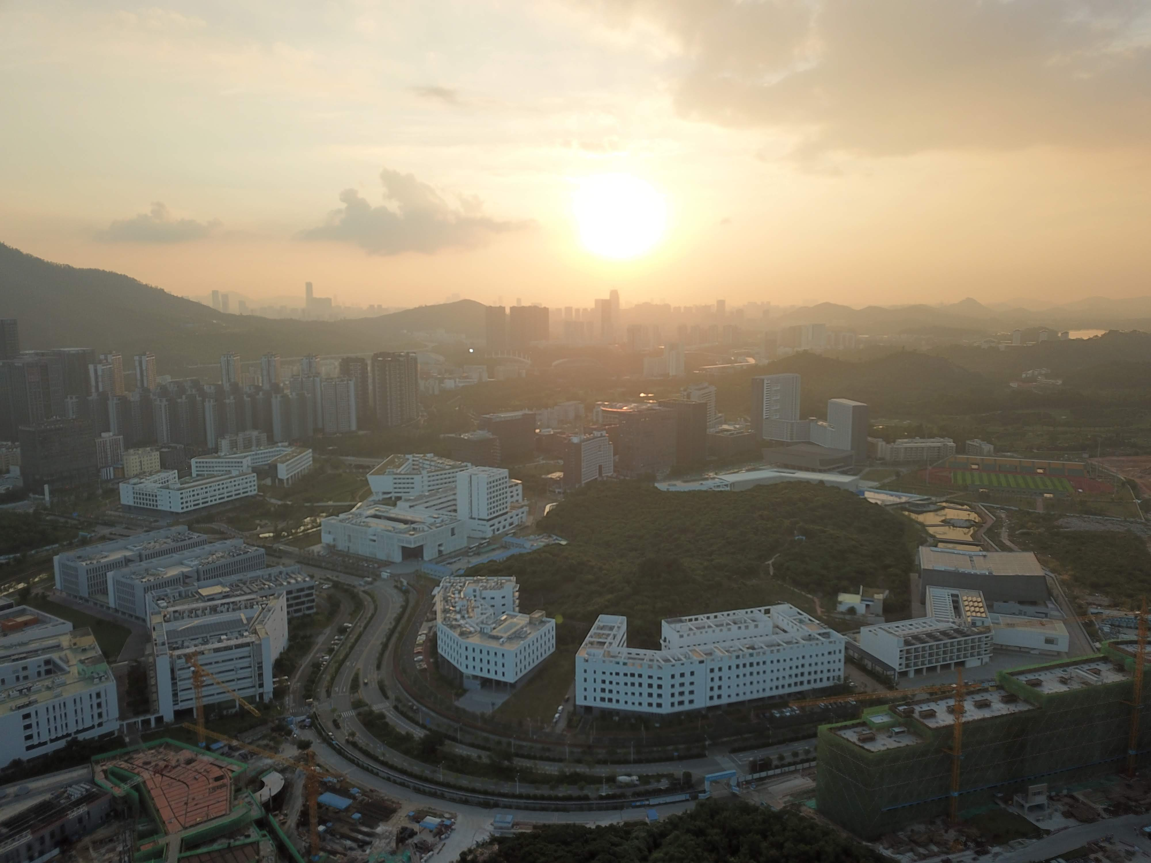 SZU Xili Campus Aerial Image From SusTech